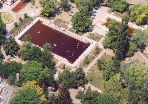 Heves, Hungary, aerialphotography